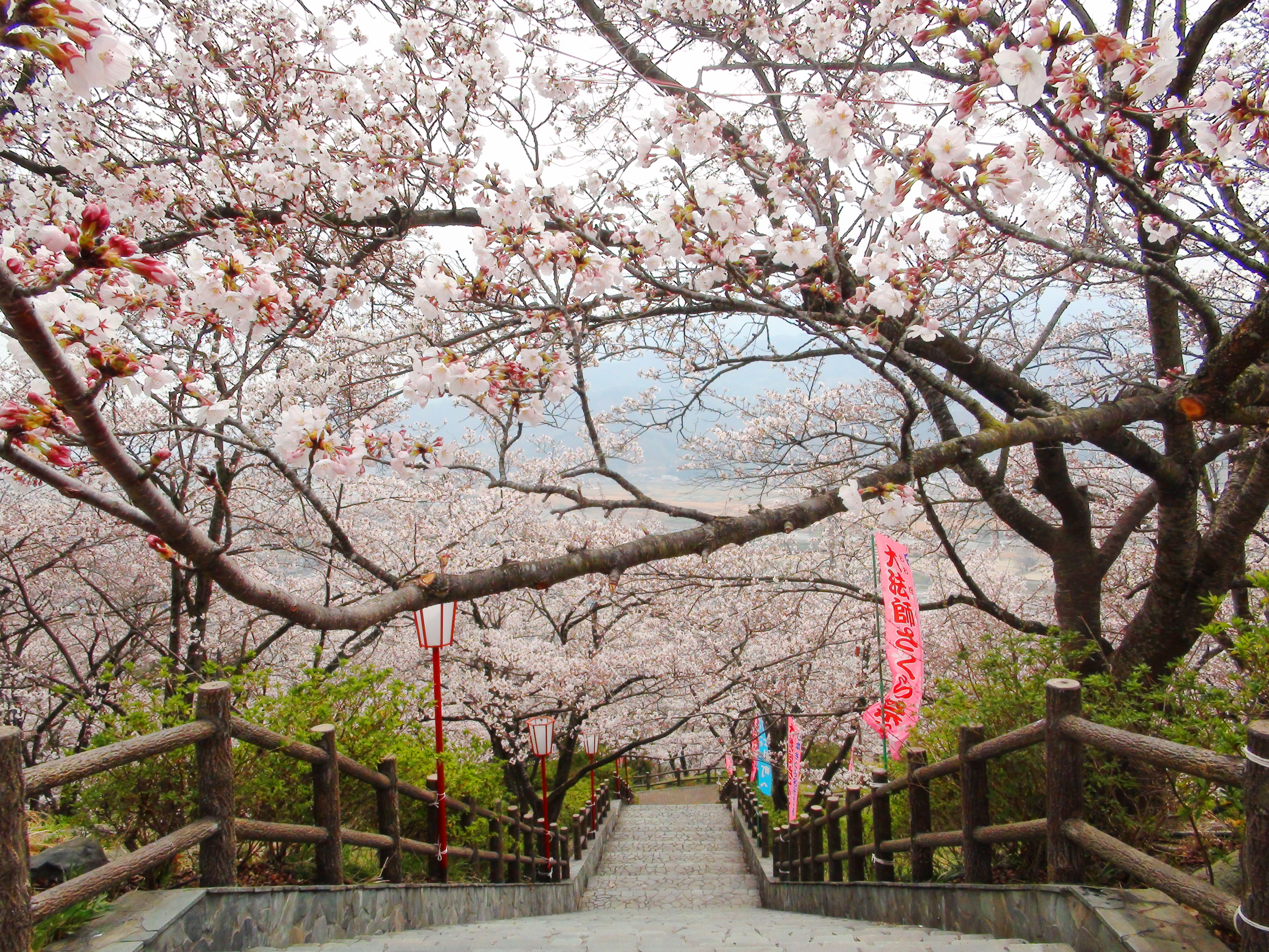 Oboshi-park cherry blossoms